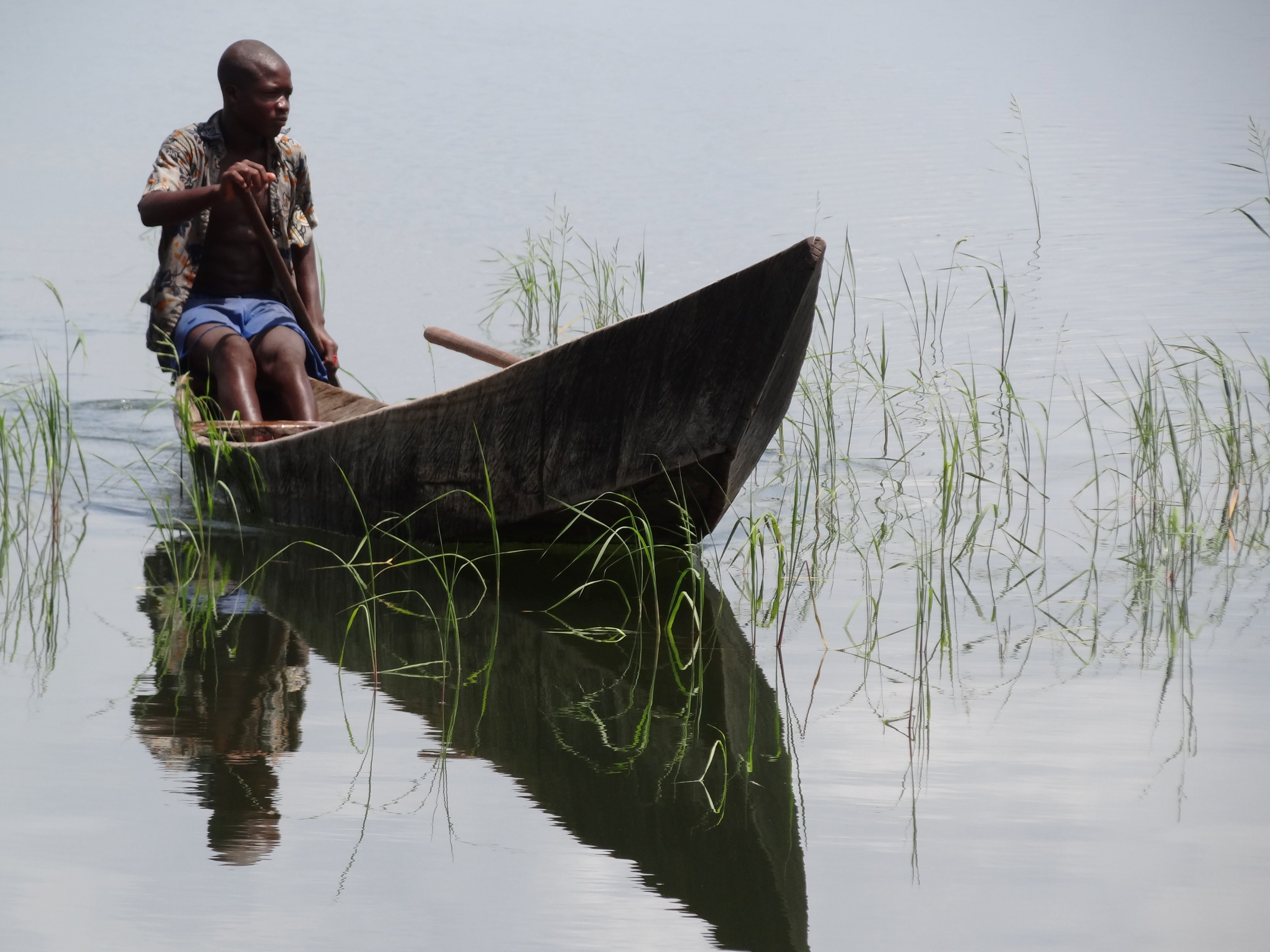 Fisher on Lake Kossou near Kousso in Côte d'Ivoire